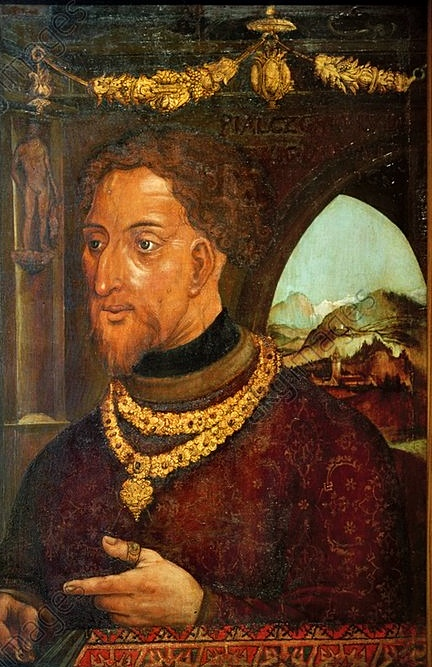 1-L1002-A1 Ludwig IV. von der Pfalz / Gemaelde von Hans Wertinger Ludwig IV., der Sanftmuetige, Pfalzgraf und Kurfuerst der Pfalz (1436-1449), 1.1.1424 Heidelberg - 13.8.1449 Worms. Gemaelde, Landshut, um od. nach 1515, von Hans Wertinger (um 1465/70 - 1533). Wiederholung des Gemaeldes von 1515. Mischtechnik auf Erlenholz, 71,2 x 47,7 cm. Inv.Nr.D 35 Muenchen, Bayerisches Nationalmuseum.